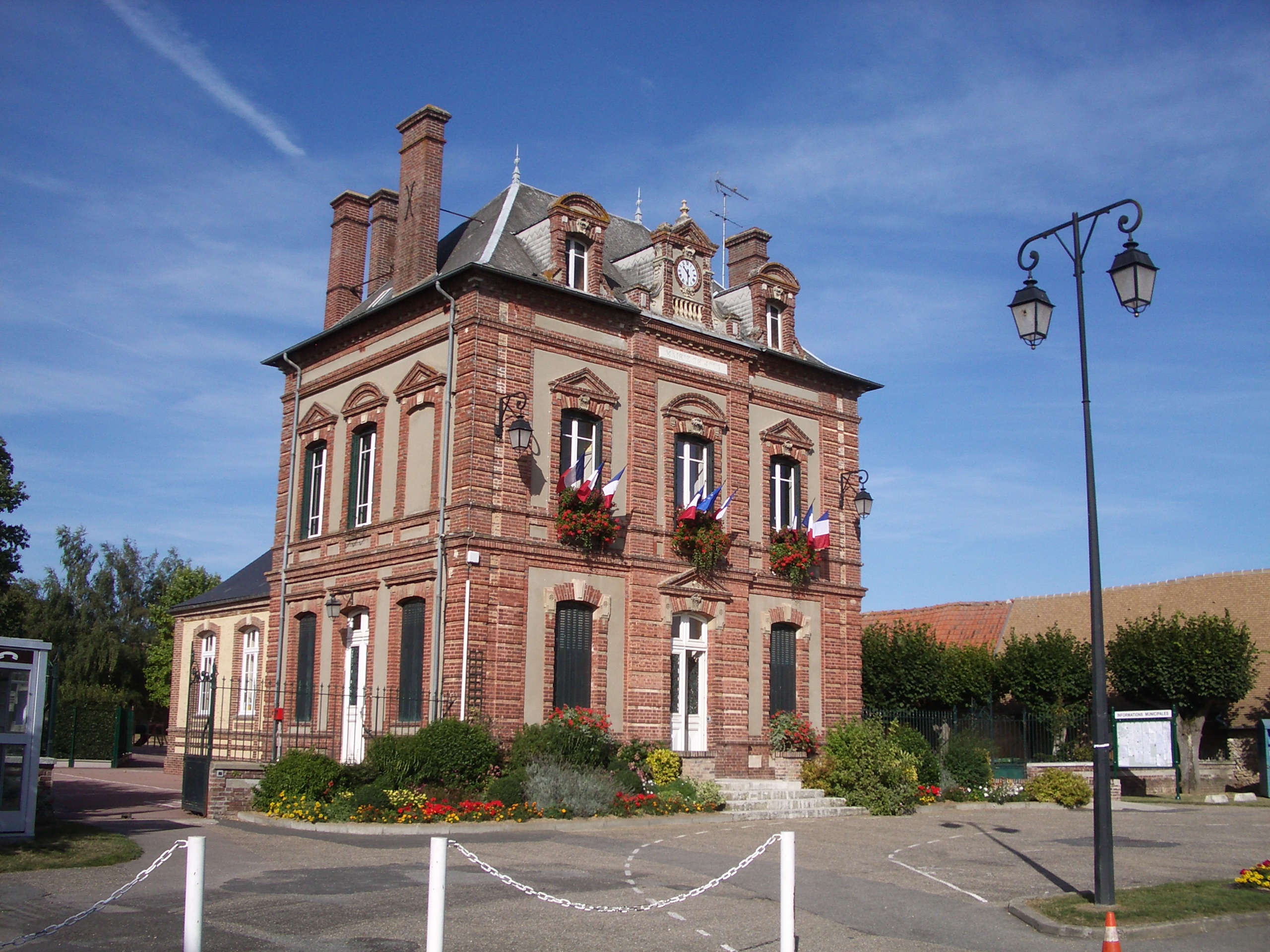 city hall of Jouy-sur-Eure (Eure)